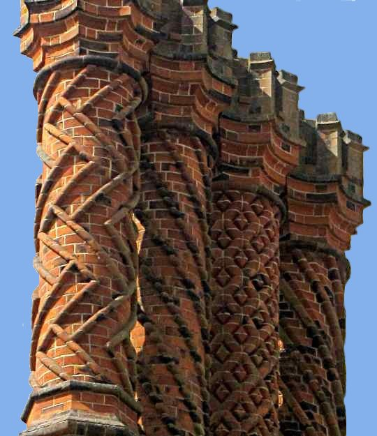 a hack for blue sky